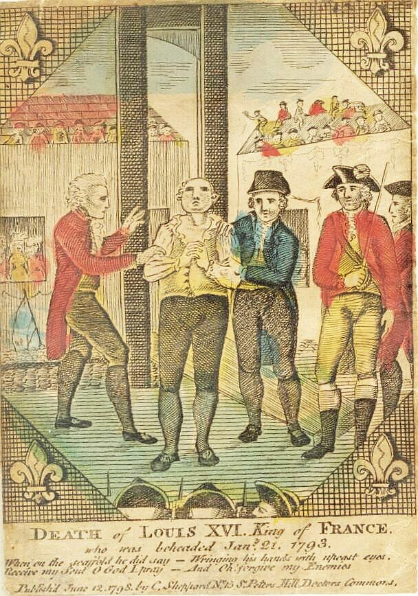 Execution of Louis XVI of Franceon 21 January 1793, from an English engraving of 1798.